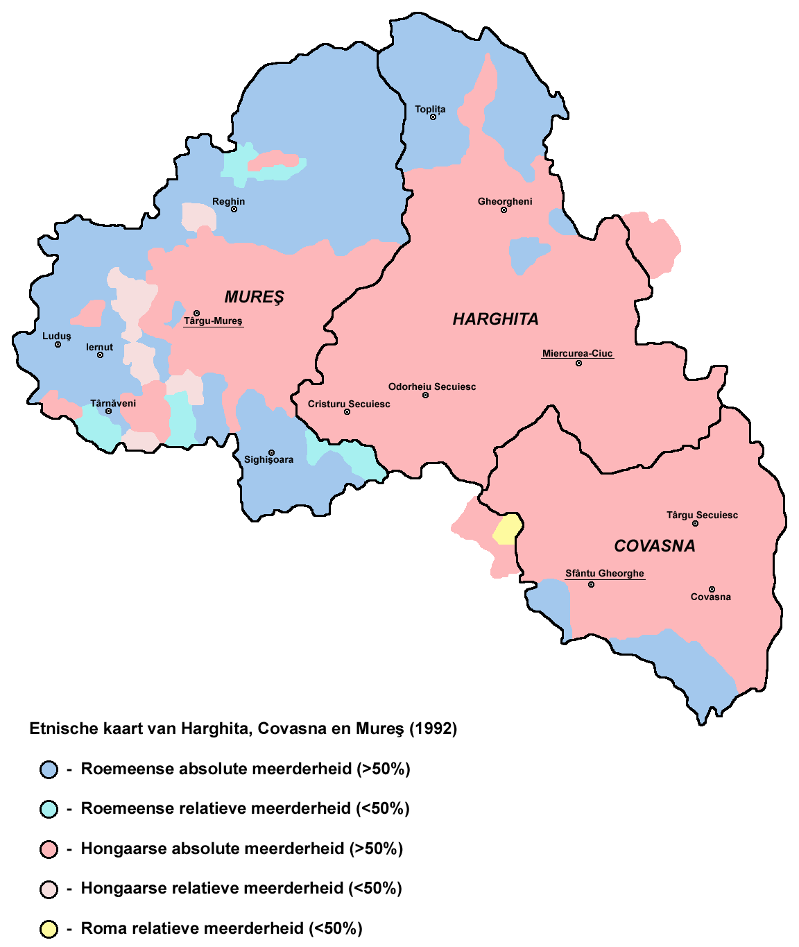 Ethnic map of Székelyland (Mureş, Harghita and Covasna counties) in Romania (1992 census data by municipalities) - Dutch language version.